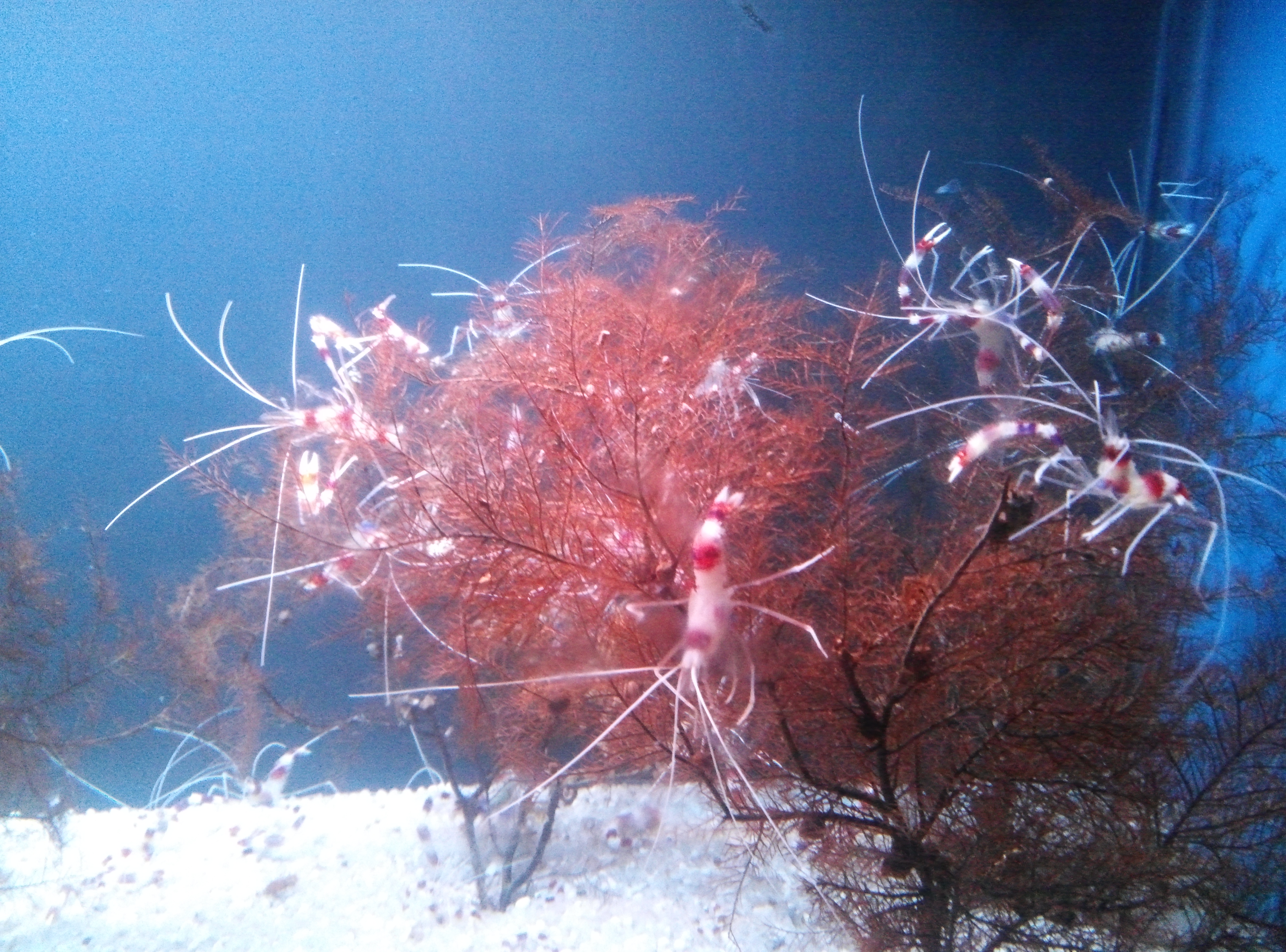 Thuỷ cung Đầm Sen 2013